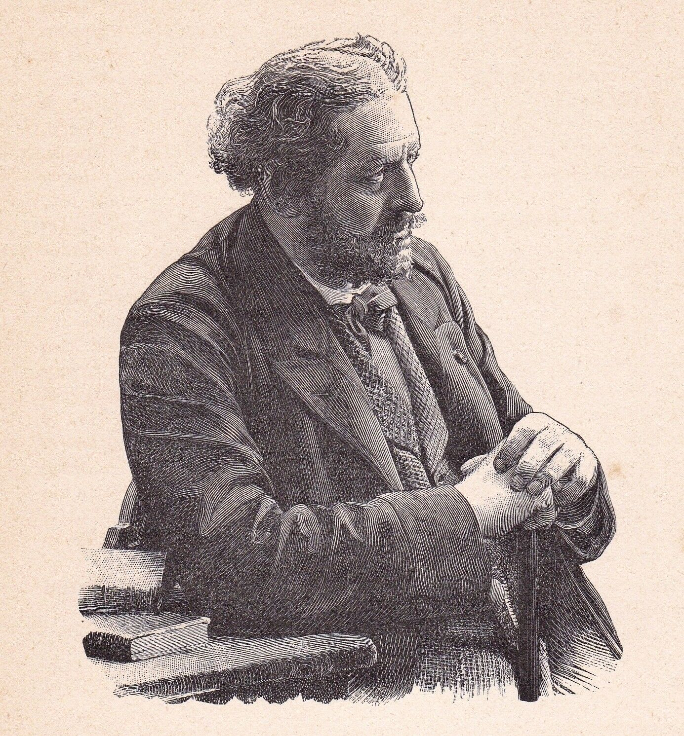 French playwright and opera librettist Jules Barbier (1825-1901)